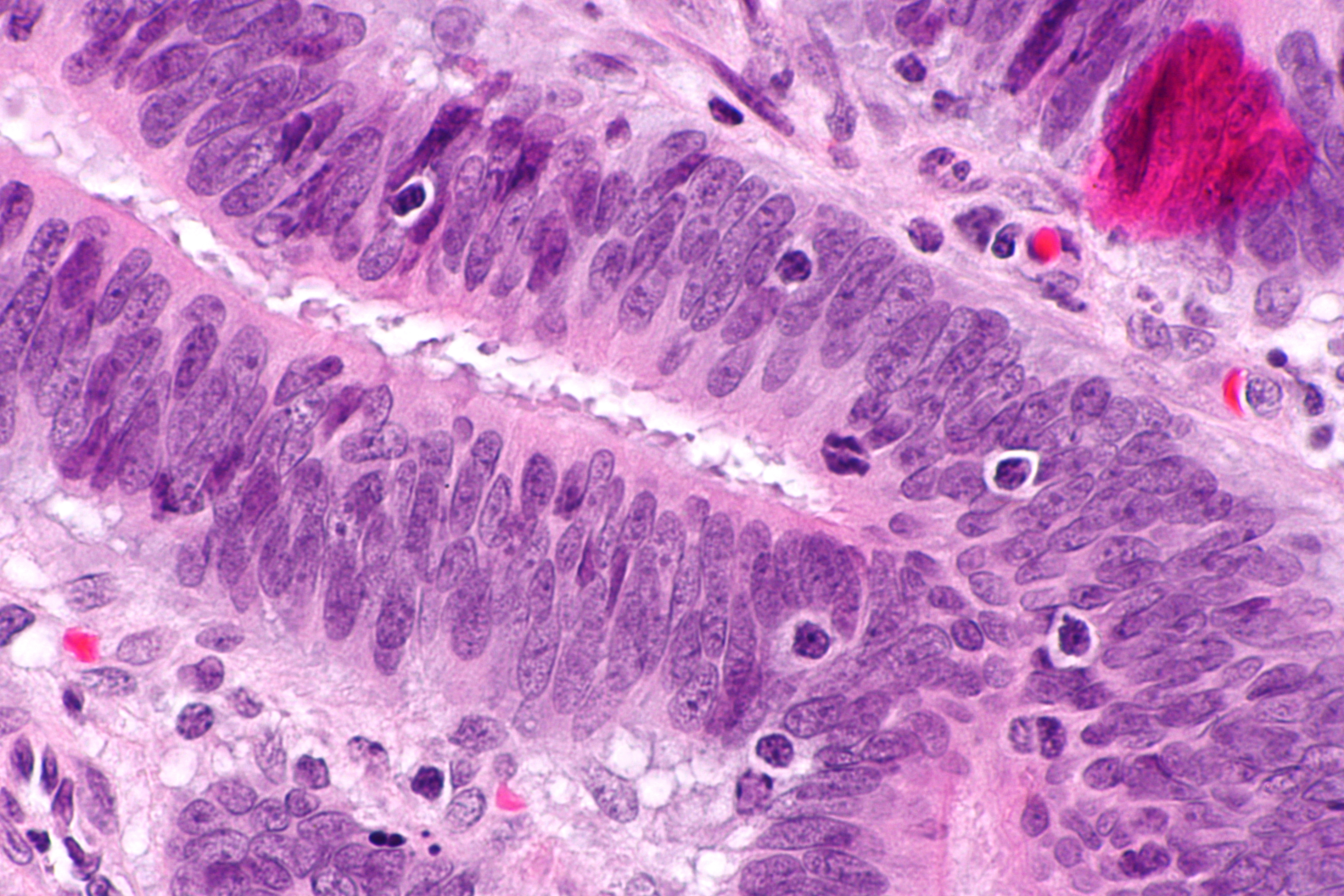 Micrograph showing tumour-infiltrating lymphocytes in colorectal carcinoma. H&E stain. Tumour-infiltrating lymphocytes (TILs) are suggestive of microsatellite instability (MSI), and may be seen in Lynch syndrome. Related images TILs - high mag. TILs - very high mag. TILs - extremely high mag. TILs - high mag. TILs - very high mag.